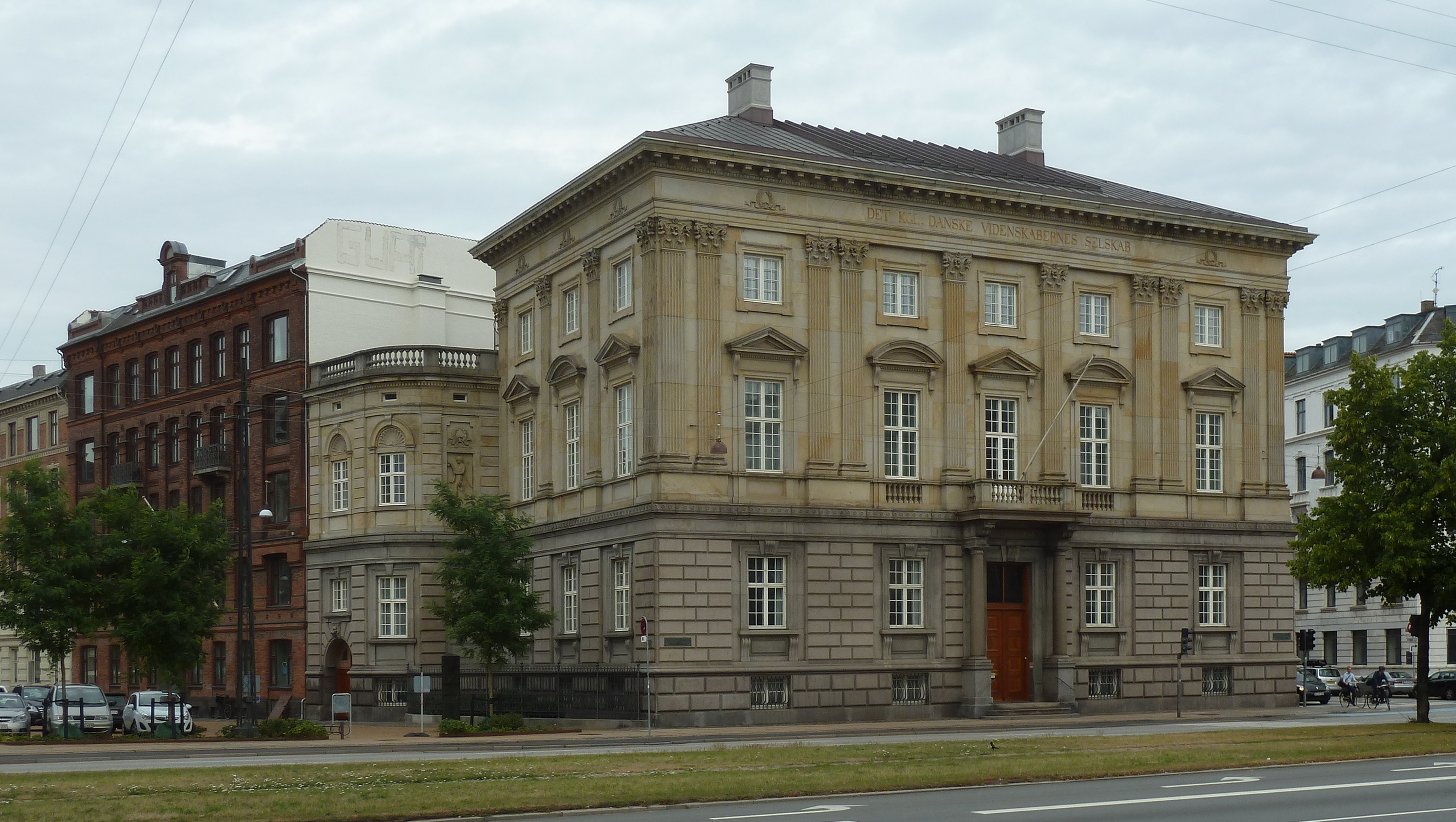 The Building shared by the Carlsberg Foundation and Videnskabernes Selskab in Copenhagen, Denmark